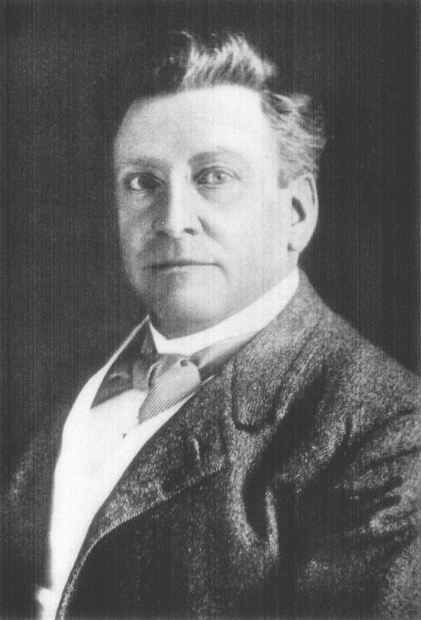 William Lever, 1st Viscount Leverhulme - Project Gutenberg eText 15306 From